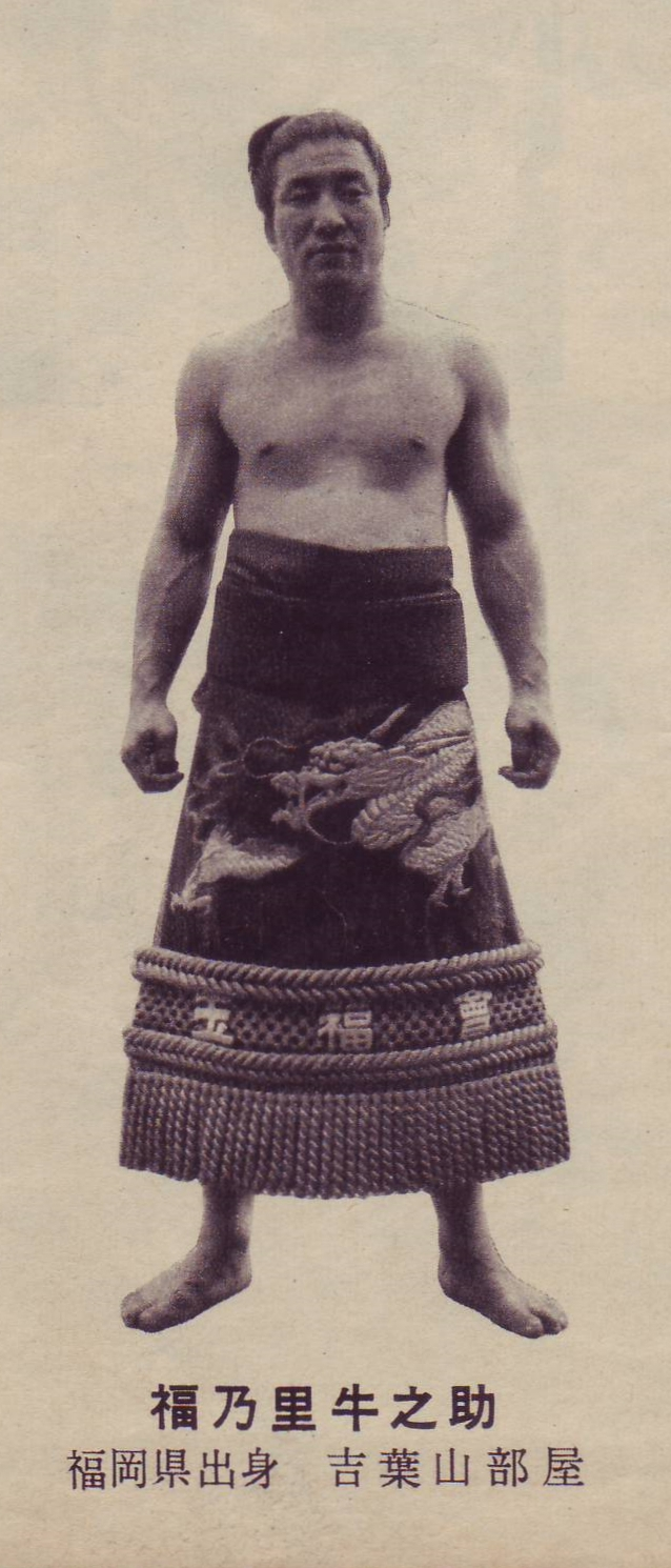 Fukunosato Ushinosuke (sumo wrestler. Maegashira). taken in 1958, or before that.